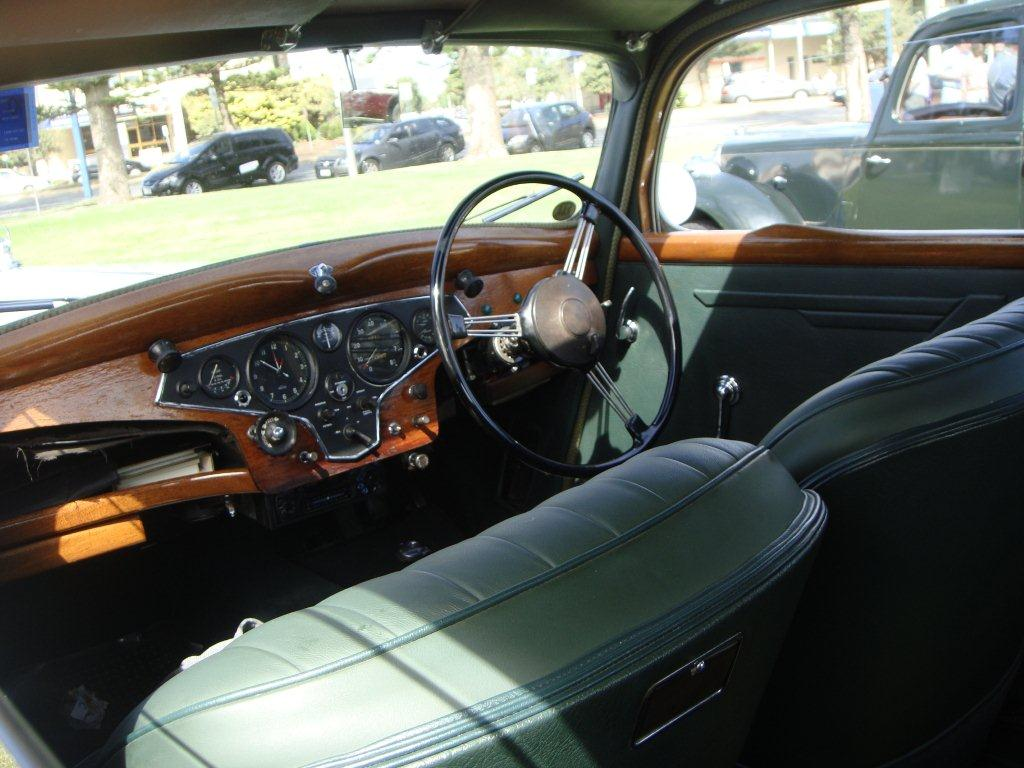 1947 Rover 16 sports saloon instrument panelRover Car Club of Australia National Rove 2010 Adelaide S A